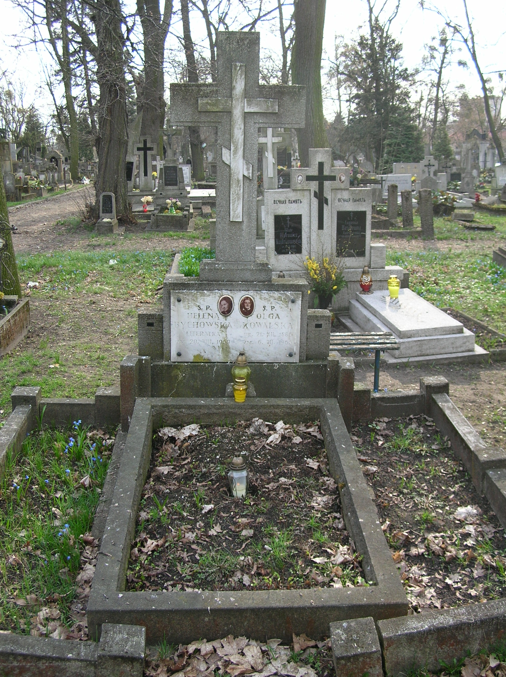 Tomb of Polish writer Helena Bychowska, Toruń